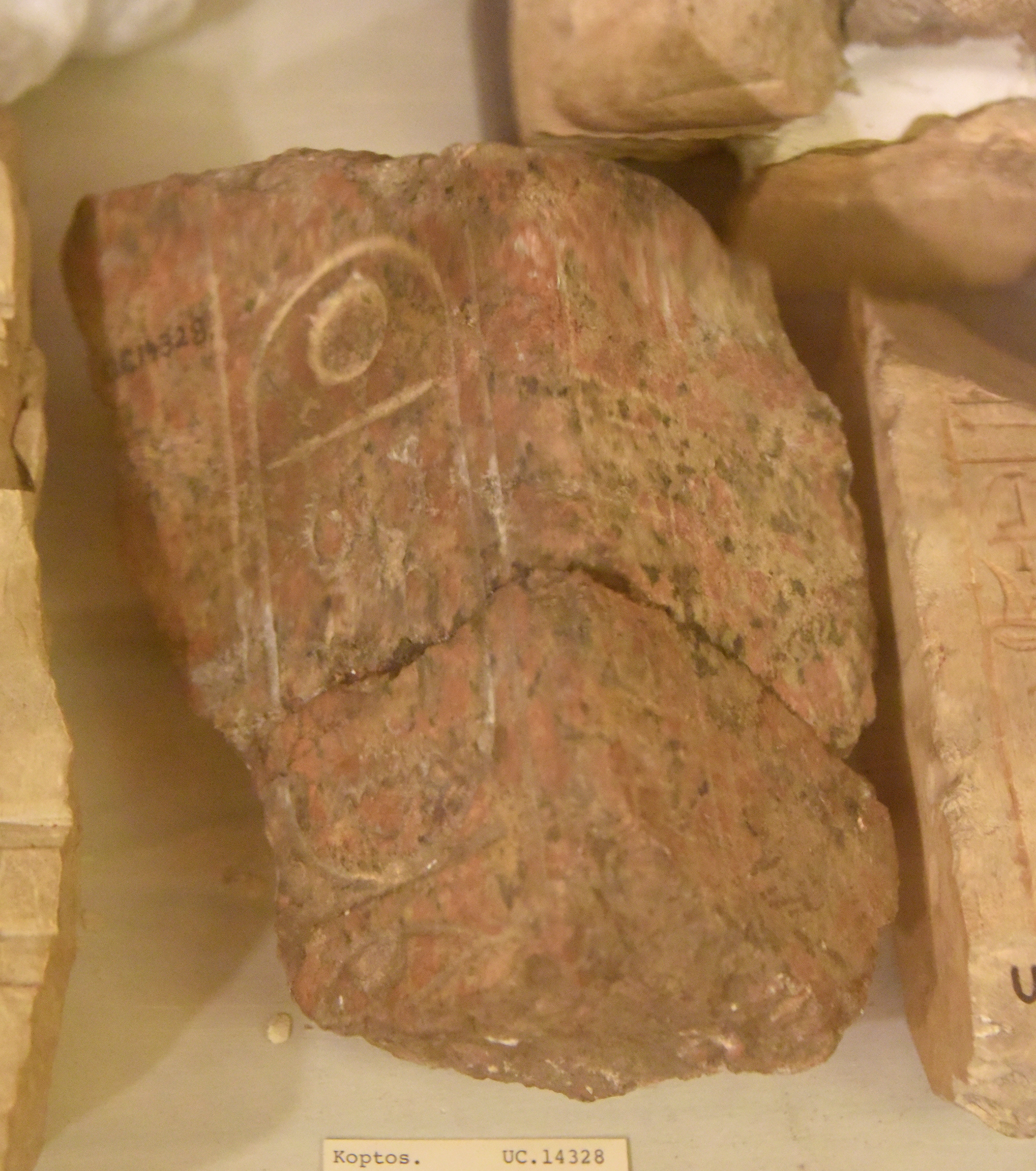 Red granite fragment bearing the cartouche of Thutmose II. Probably from a throne of a seated statue. From Thutmose III Temple at Koptos (Qift), Egypt. 18th Dynasty. The Petrie Museum of Egyptian Archaeology, London. With thanks to the Petrie Museum of Egyptian Archaeology, UCL.